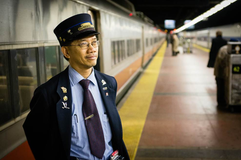 Metro-North Railroad Assistant Conductor Thomas Yuen watches passengers boarding his New Haven Line train. Photo: Metropolitan Transportation Authority / J.P. Chan